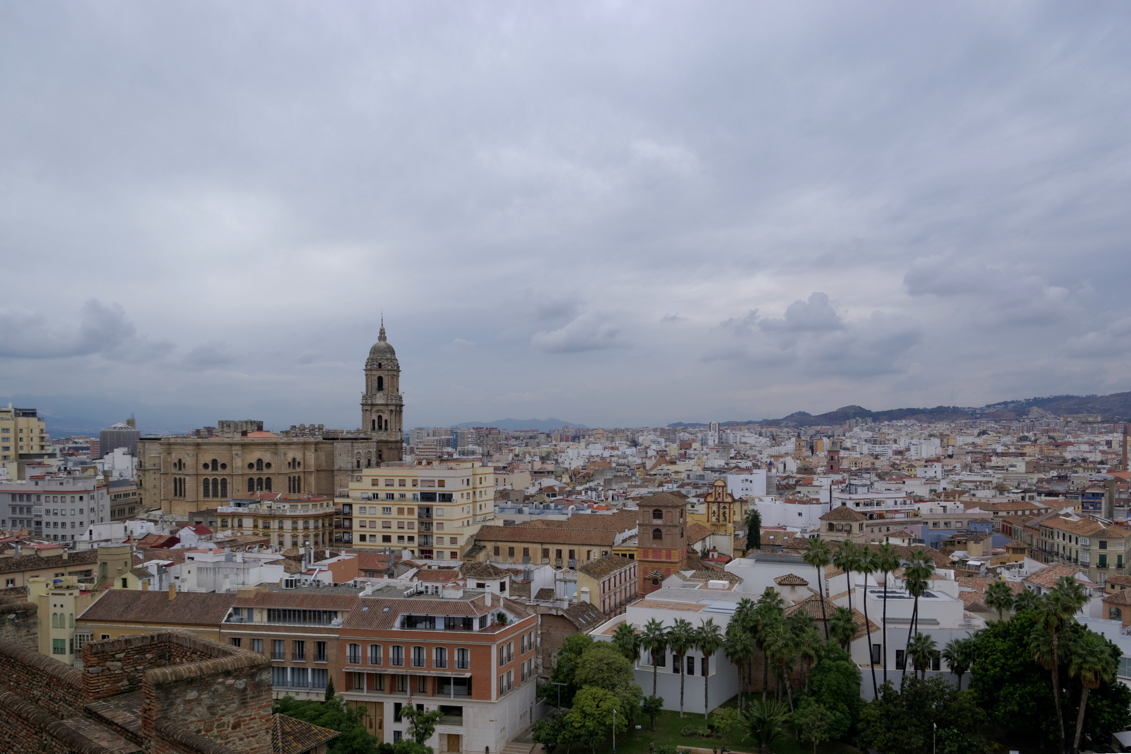 Spain, Malaga